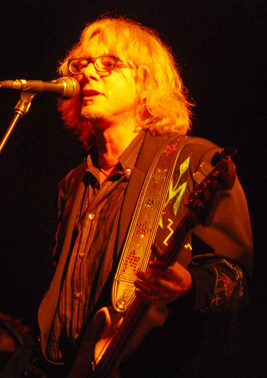 Mike Mills was really well lit thoughout the concert which meant I could drop the ISO down to as low as 400. ISO 1000 meant the pictures lacked any detail and didn't look particularly sharp. It is worth waiting until there is plenty of light on your subject before pressing the shutter.